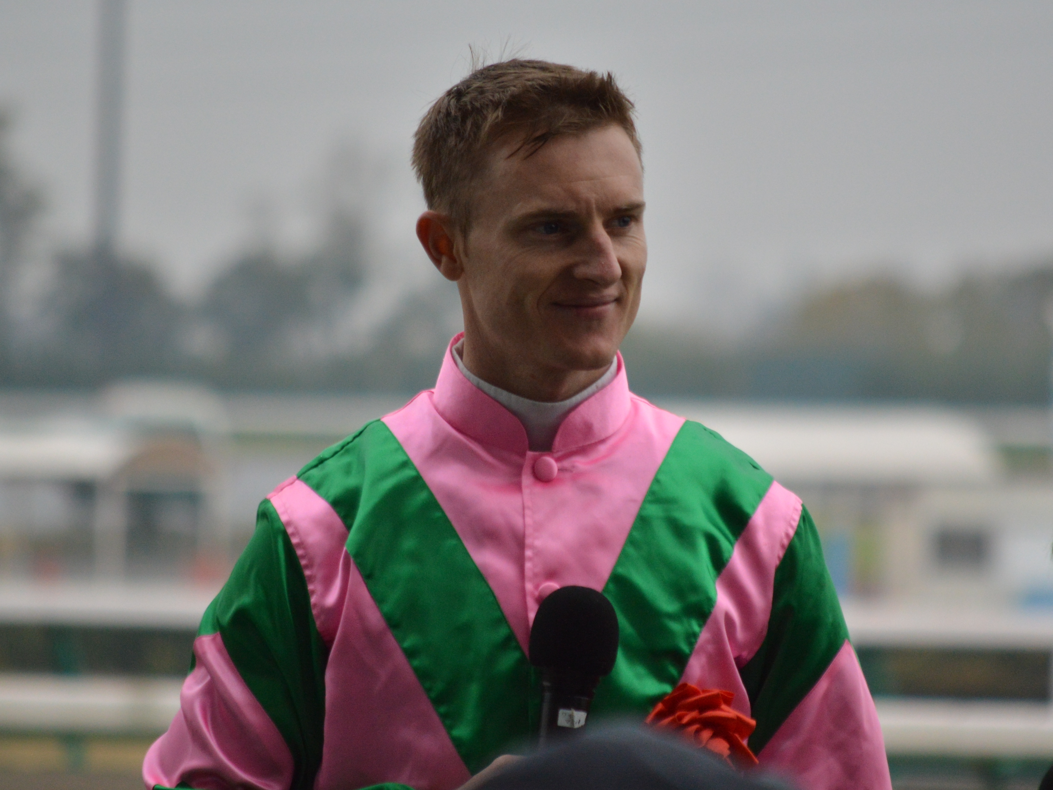 2015年高松宮記念にて勝利騎手インタビューを受けるザカリー・パートン騎手Zachary Purton jockey receiving an interview at the Takamatsunomiya Kinen awards ceremony.